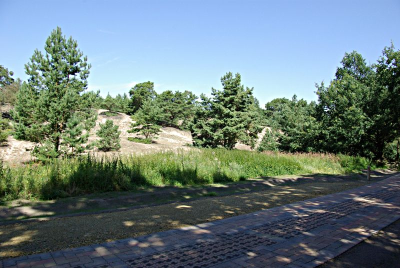 Bicycle path Gurkenradweg near Rietzneuendorf